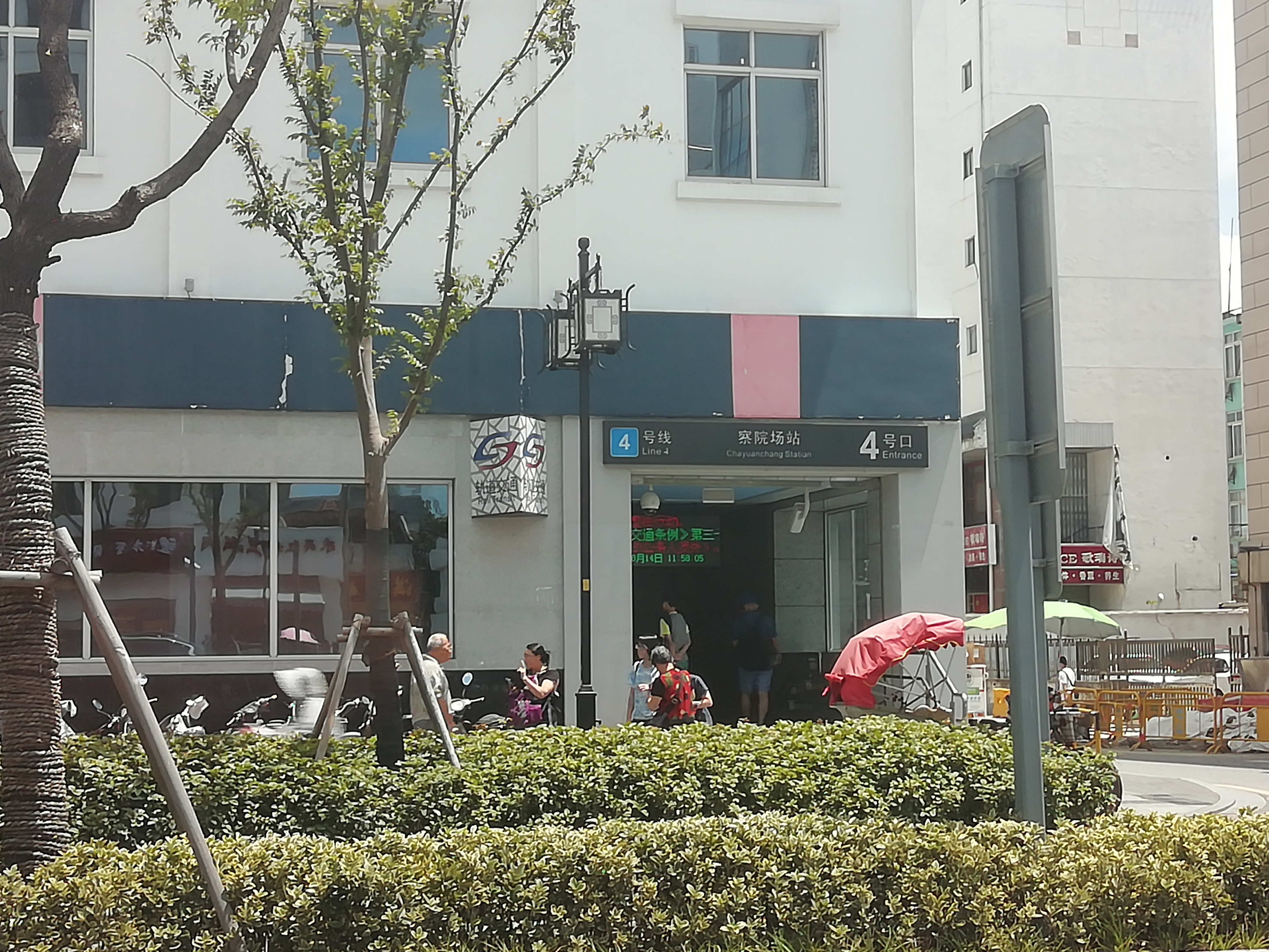 Exit 4 of Chayuanchang Station of Line 4, Suzhou Rail Transit 中文（中国大陆）: 苏州轨道交通4号线察院场站4号出口